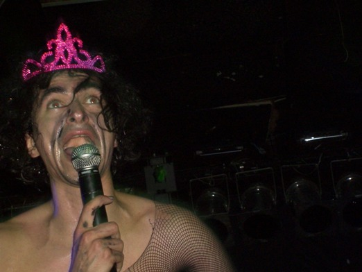 Jimmy Urine onstage at Club Bijou in Toledo, Ohio. Andrea rocks!! - Mike 2.0